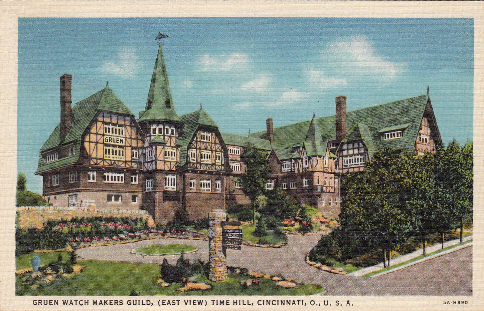 Gruen Watch Makers Guild, Time Hill, Cincinnati, Ohio, USA, Reproduction of postcard from 1937